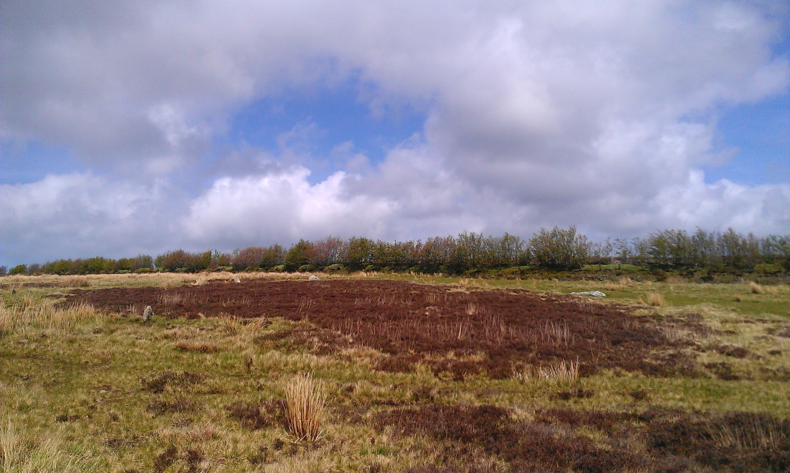 Porlock stone circle, a Late Neolithic/Early Bronze Age ritual monument in Exmoor, Somerset.